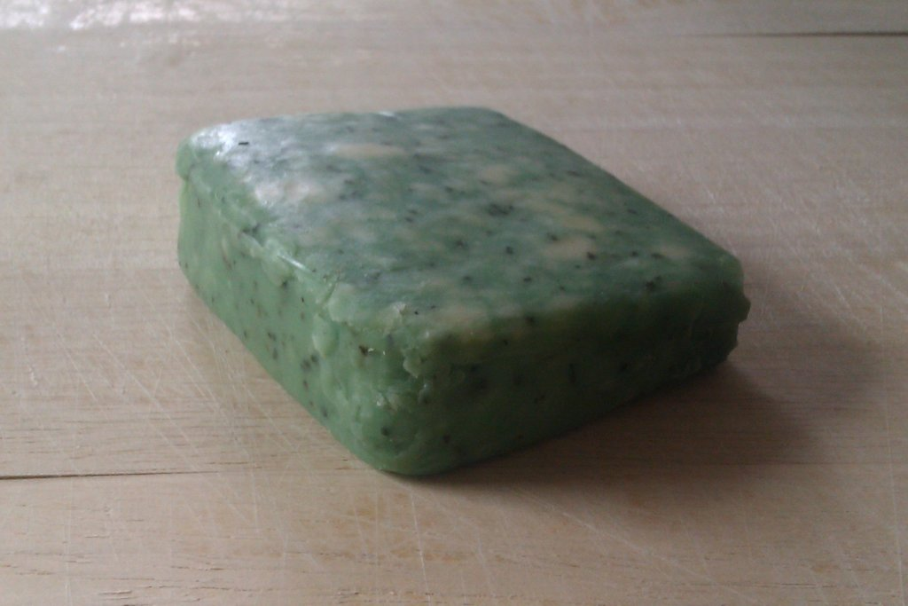 Taken with picplz.